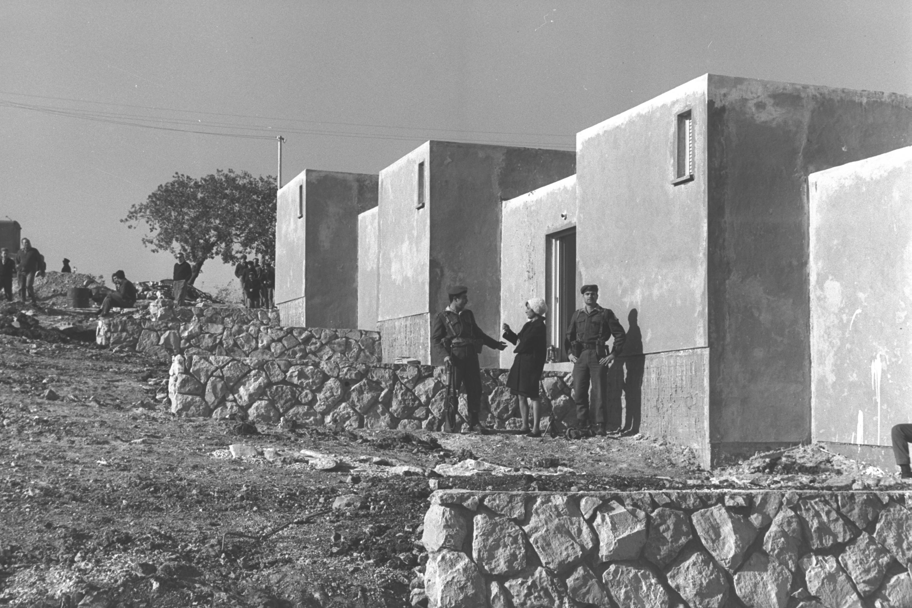 THE FIRST HOUSES AT THE NEW NACHAL SETTLEMENT BIRANIT IN UPPER GALILEE NEAR THE LEBANON BORDER.